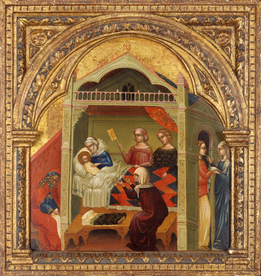 Lorenzo_Veneziano_The_Birth_of_st_John_the_Baptist._Wildenstein_&_Co.__1350-56.